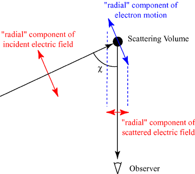 illustration of Thomson scattering